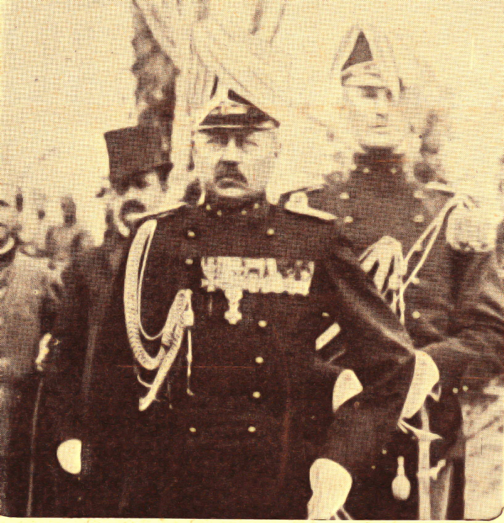 majoor Thomson